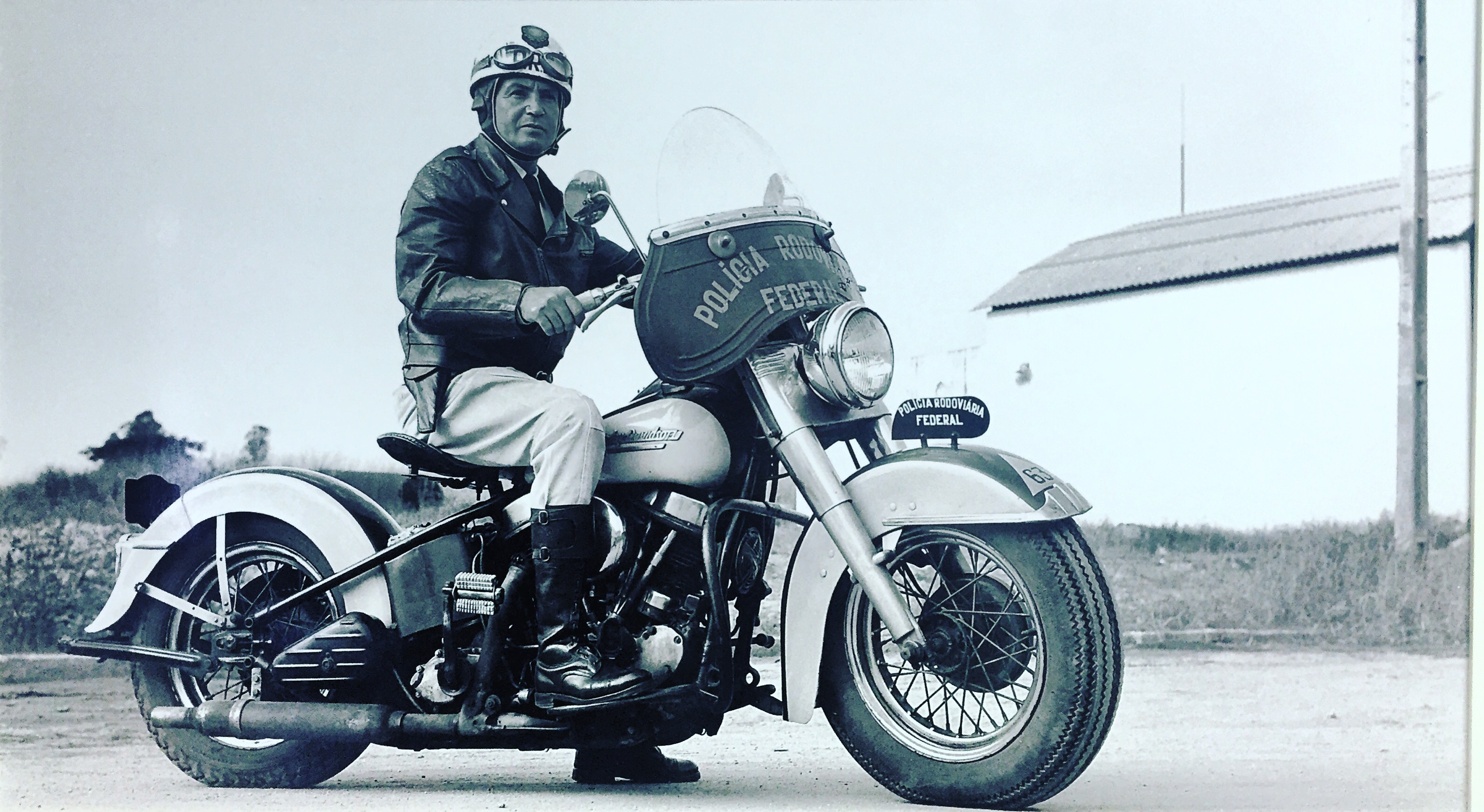 Motociclista PRF